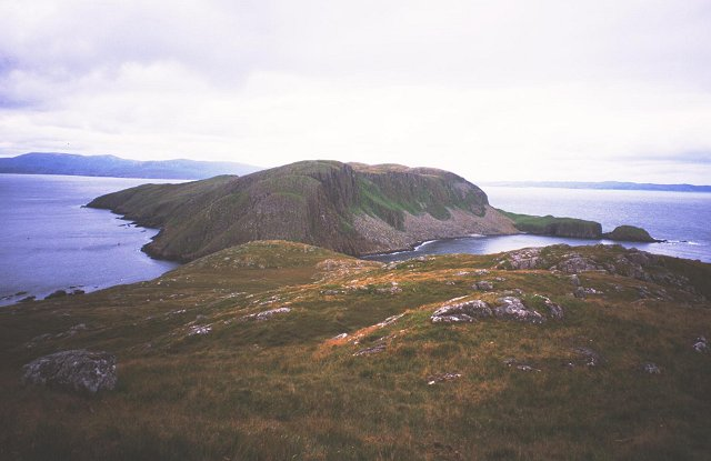 View north to Garbh Eilean from the summit of Eilean an Taighe. Eilean an Taighe is very grassy and provided good grazing as well as some arable land when the islands were inhabited. A third island, Eilean Mhuire is the most fertile. The islands are now grazed by the crofters sheep from Lewis.